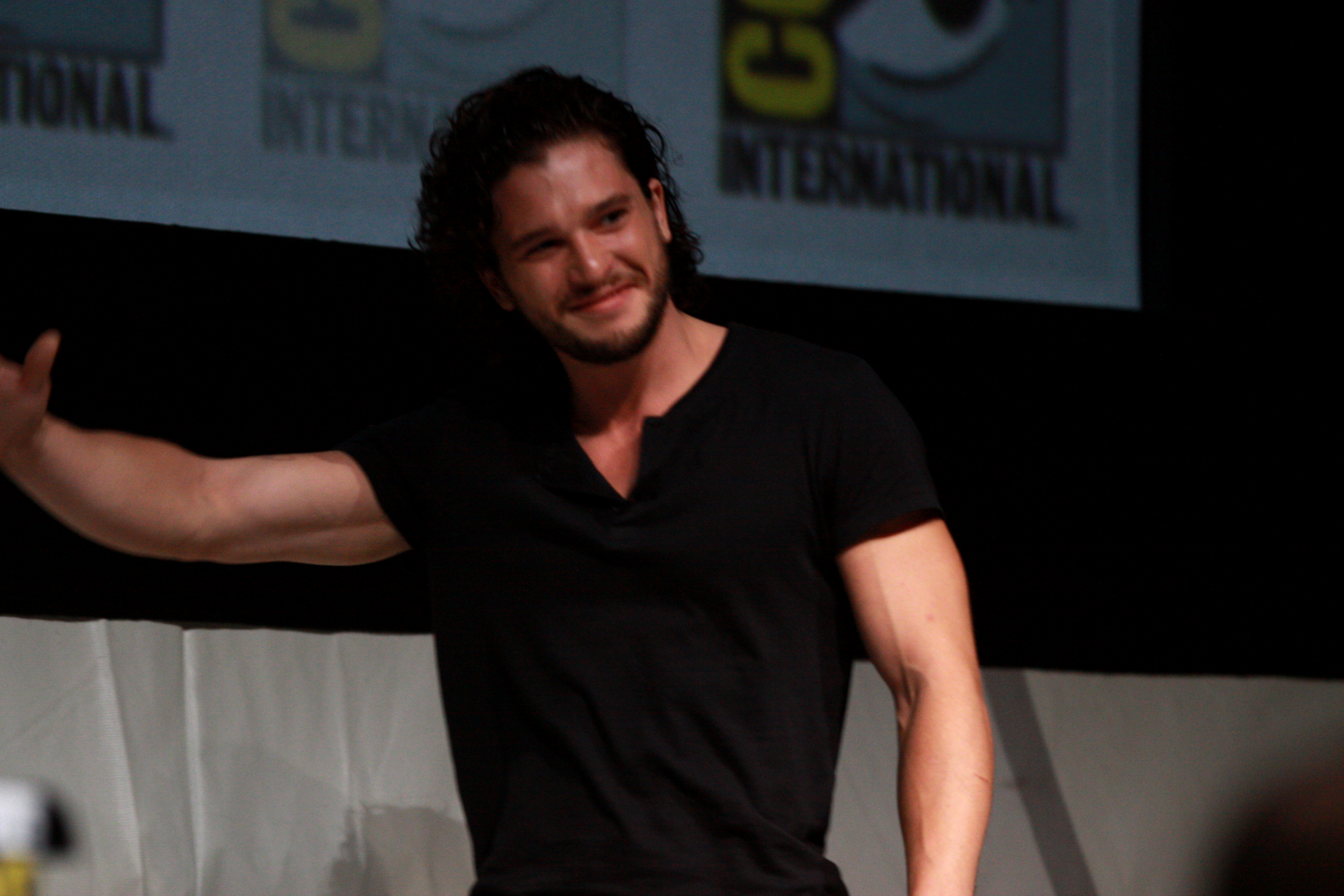 Kit Harrington speaking at the 2013 San Diego Comic Con International, for "Game of Thrones", at the San Diego Convention Center in San Diego, California.